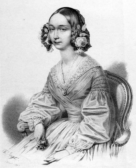 Operatic soprano Julie Dorus-Gras (1805-1896) by Charles Vogt (1810-1890).